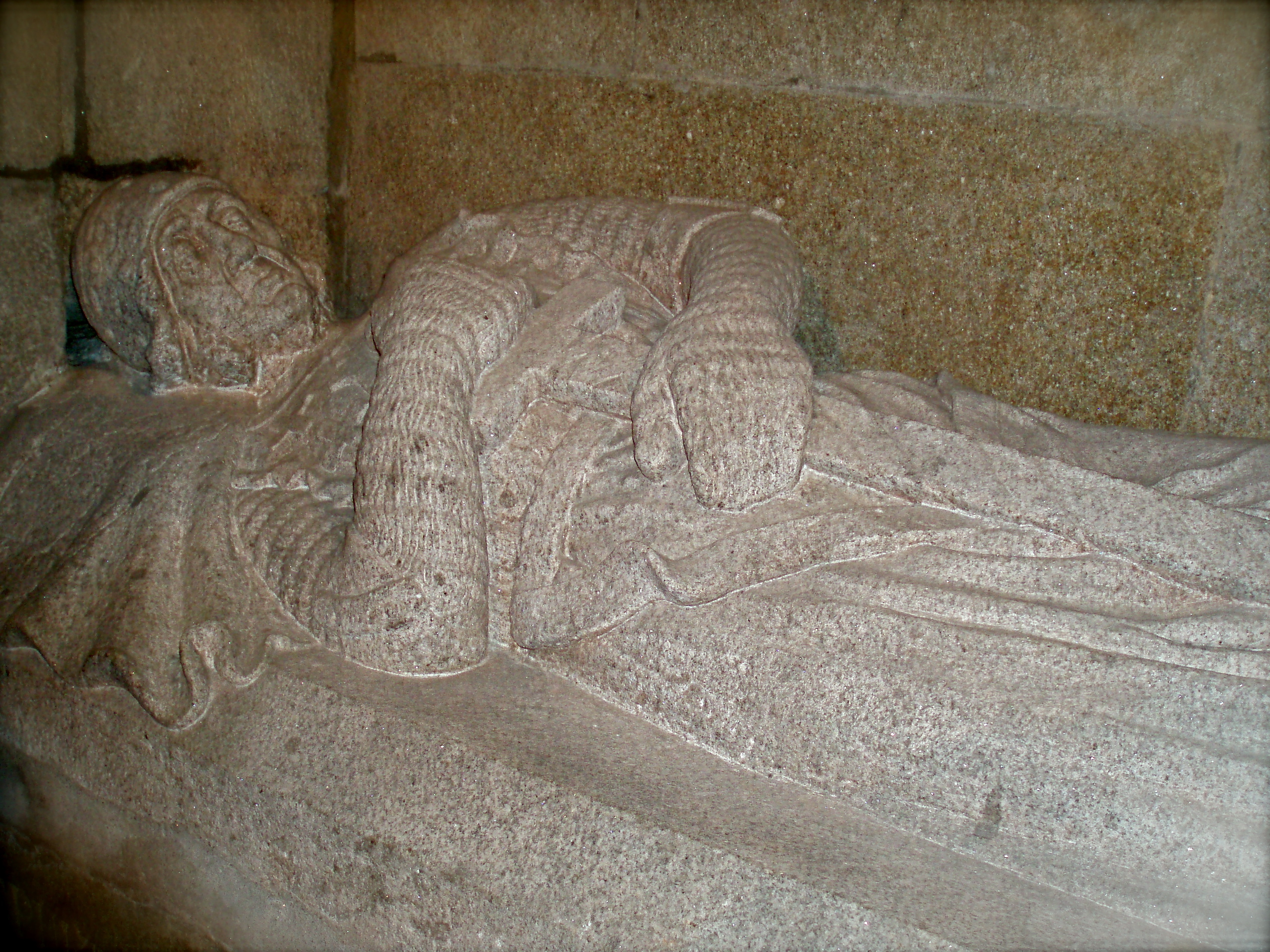 Sepulcher of Pedro Froiz (d. 1128), count of Traba.